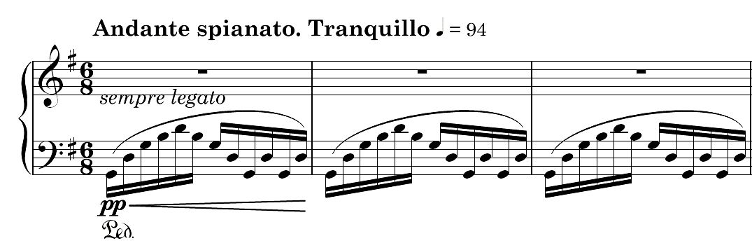 Chopin's Andante spianato from Op. 22